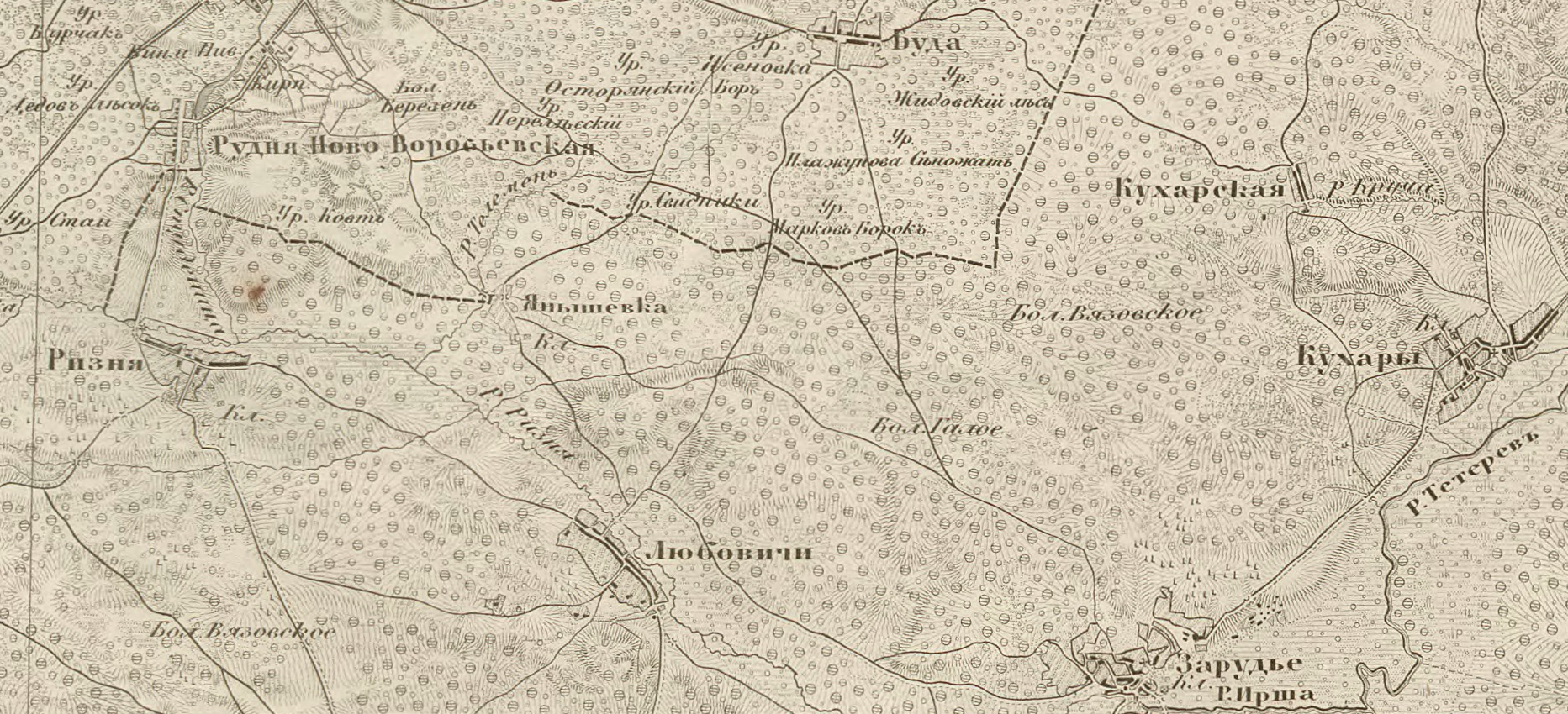 Map of 1868 with the image of villages Lyubovychi and Zarud'ye (volost of Malyn, district of Radomysl)